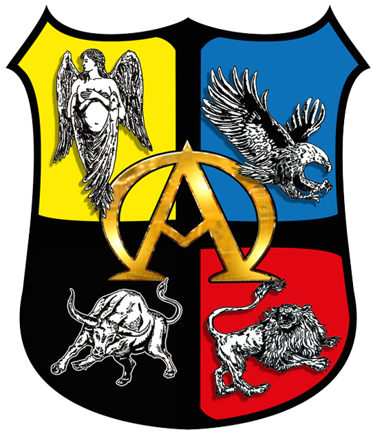 Rosicrucian Academy of Alpha Omega